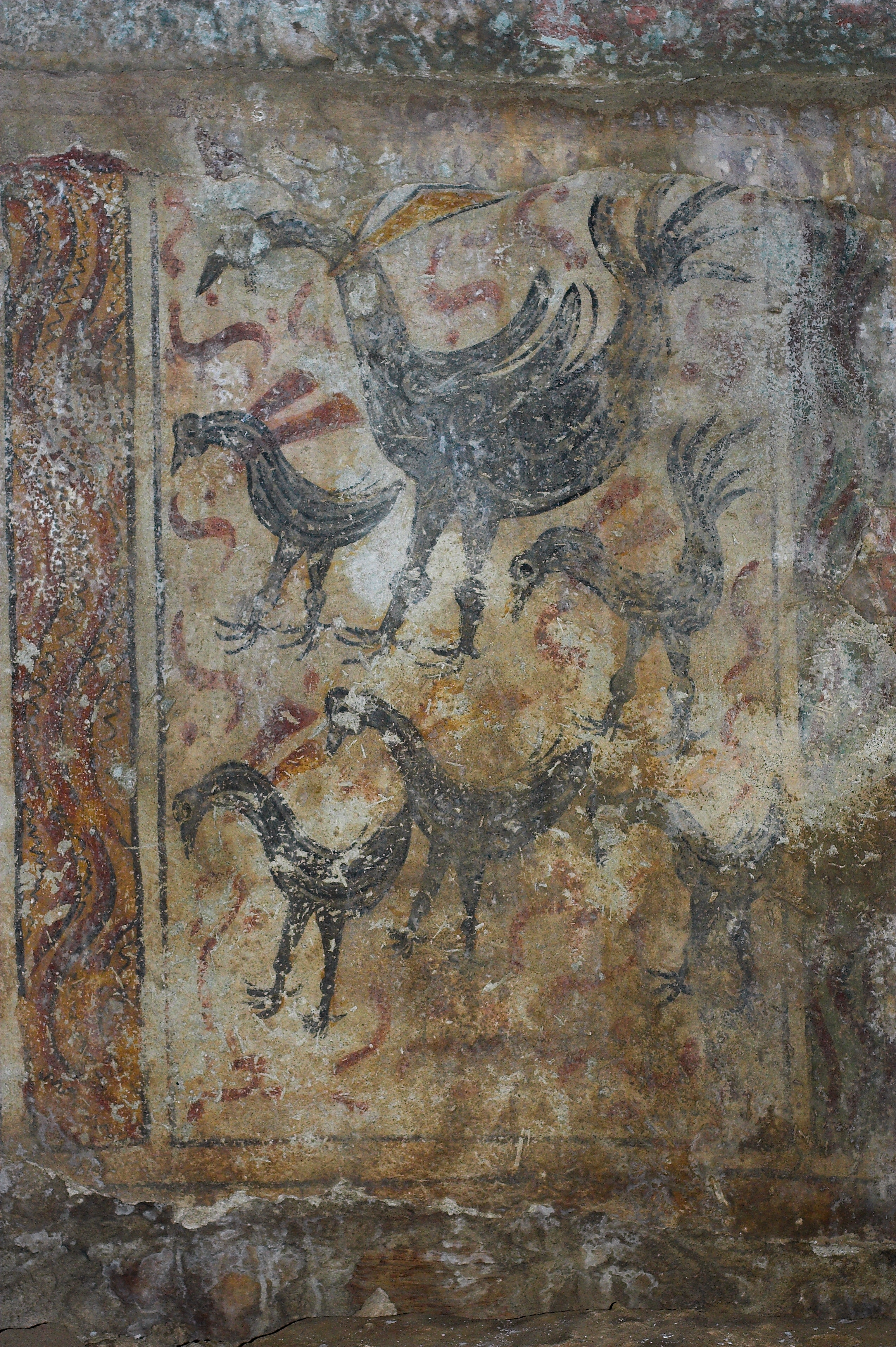 Ag. Kyriaki n Naxos, 9th century. Frescos (9th-12th century), respecting the iconoclastic regulations: Roosters with scarves, fluttering in the wind.